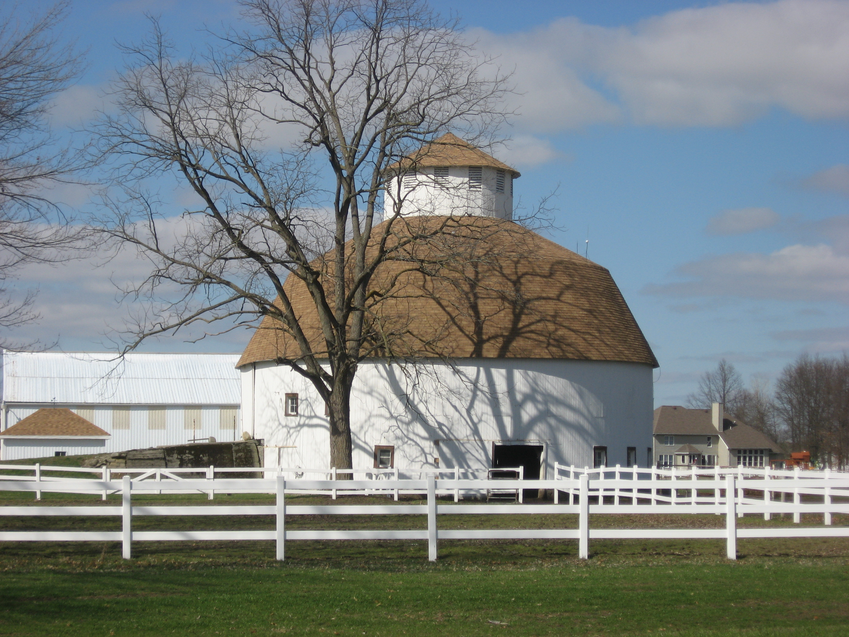 Exterior of the Isaac Rozell Round Barn, seen from the south-southwest. Located along East Road just south of Elida in northwestern American Township, Allen County, Ohio, United States, the barn was built in 1911 and is listed on the National Register of Historic Places.